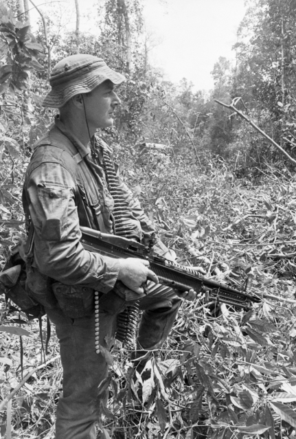 Phuoc Tuy Province, South Vietnam. 1968-08-30. Private Darryl Ward of Gawler, SA, a member of the 4RAR /NZ (ANZAC) (The ANZAC Battalion comprising 4th Battalion, The Royal Australian Regiment and a component from the 1st Battalion, Royal New Zealand Infantry Regiment), keeps watch against enemy activity while protecting a bulldozer during Operation Lyrebird in Phuoc Tuy Province. He is armed with a M60 machine gun. The battalion was providing protection for Task Force engineers who were cutting a 200-yard wide track, sixteen miles long through enemy territory, designed to curtail enemy movement in the area.